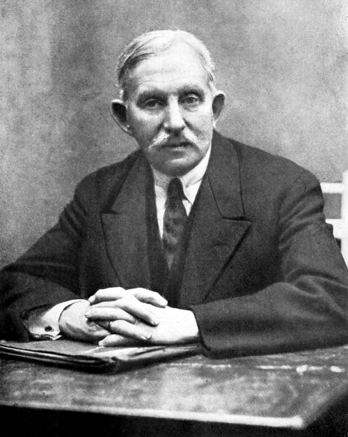 Franz Levinson-Lessing